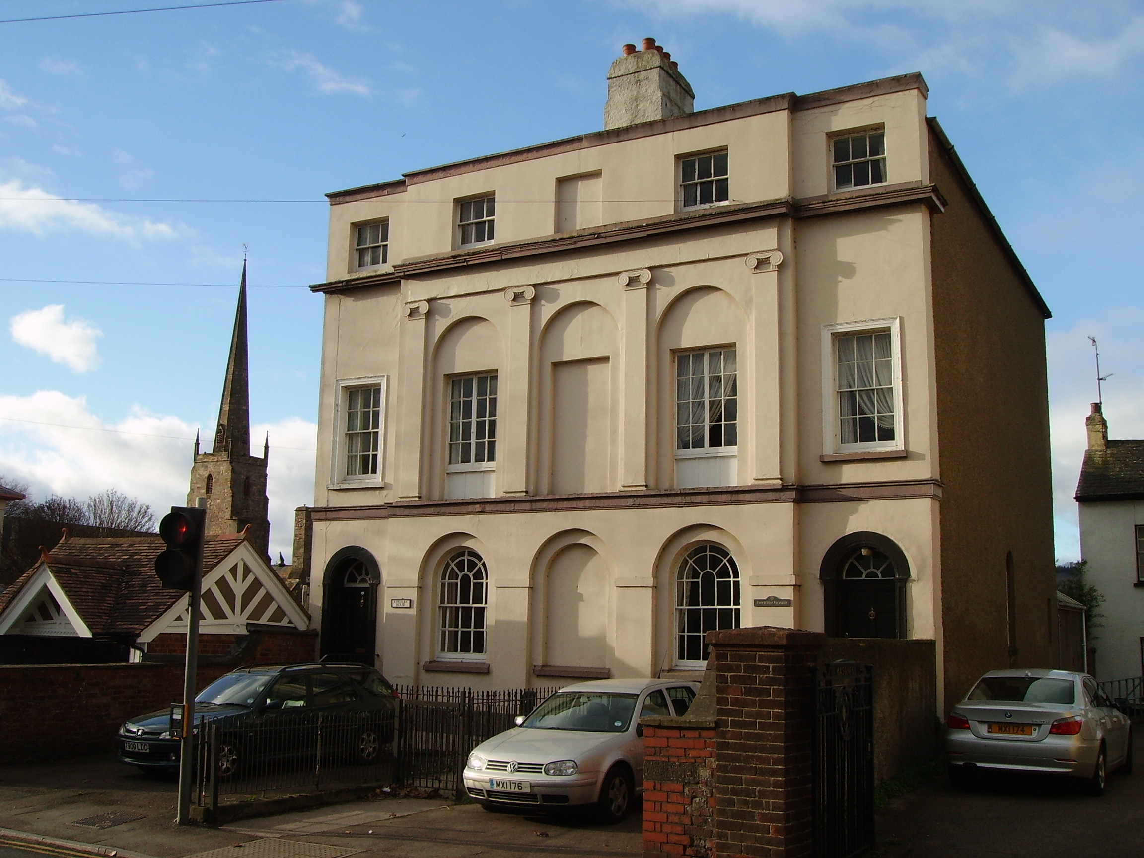 No.s 8 & 10 Monk Street, Monmouth, Wales. No. 8 was the home of prolific Monmouth architect, George Vaughan Maddox and which he himself designed..